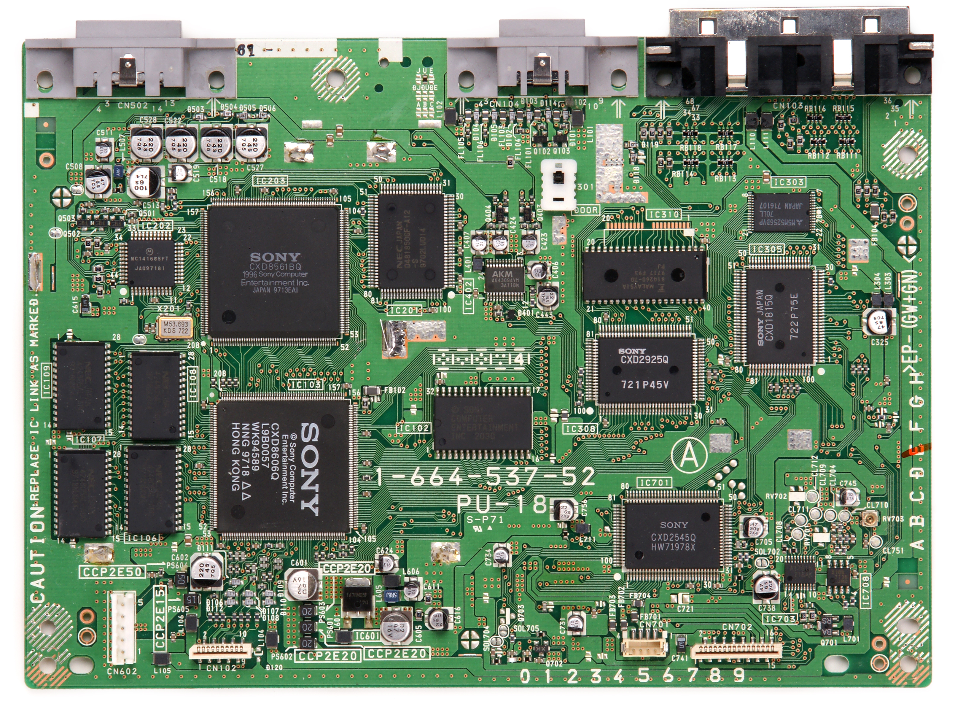 The motherboard from a Sony PlayStation, version SCPH-5001.